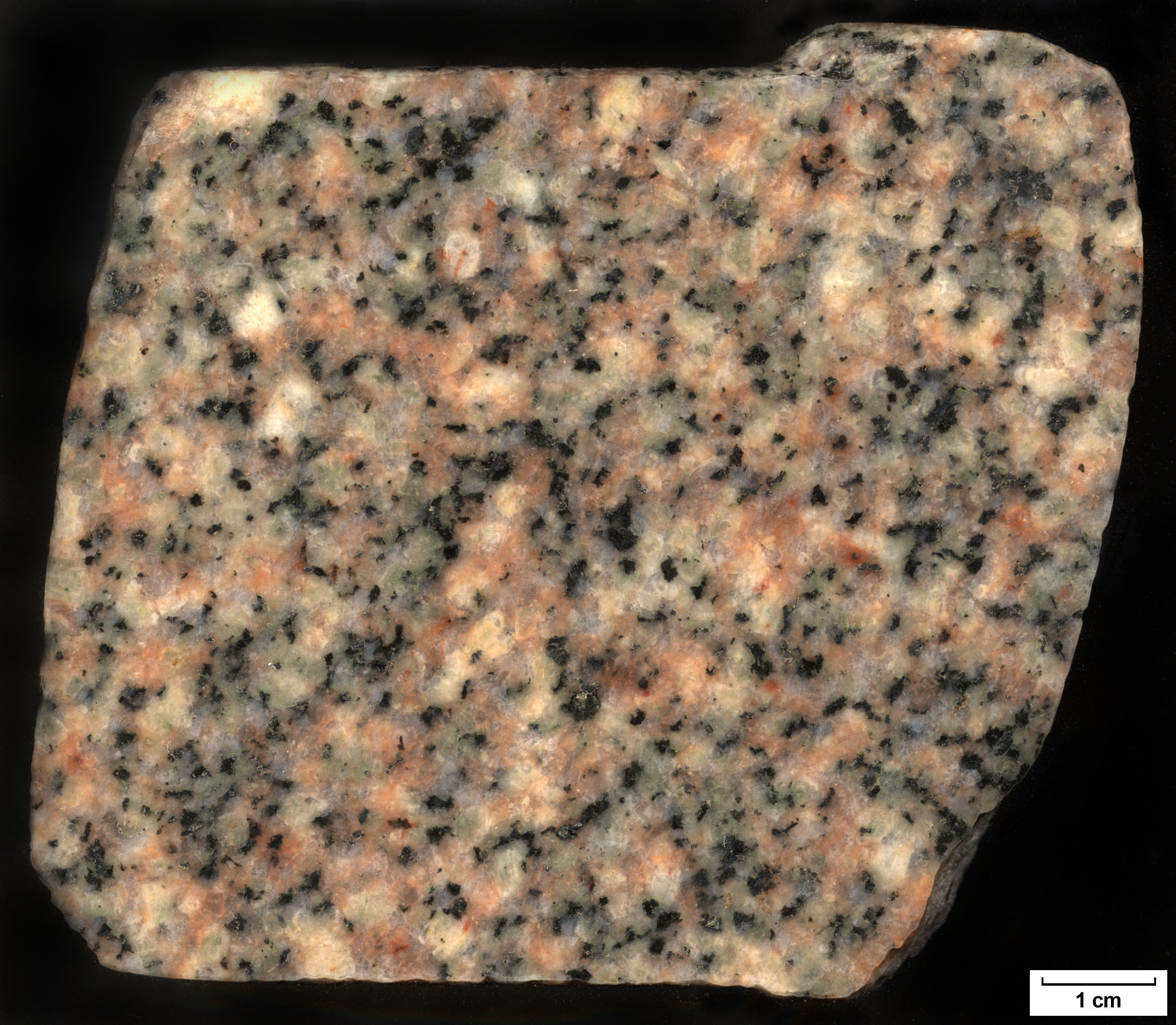 Bedrock sample from a UGSG drill core at Western Cape Cod, Massachusetts. Sample 36MW1037, a quartz monzonite, contains plagioclase (45%), K-feldspar (35%), quartz (15%), biotite (3%), and trace amounts of garnet, chlorite, oxides, epidote, and sphene. Seritized plagioclase is intergrown with K-feldspar and in some places shows unaltered zones that may suggest regrowth. Perthitic K-feldspar porphyries show tartan and some carlsbad twinning. Quartz occurs in domains up to 3 mm thick, and commonly exhibits subgrain development and undulose extinction. Biotite is chloritized near its edges. Garnet occurs as small (0.2 mm) rounded isotropic inclusions within altered plagioclase.